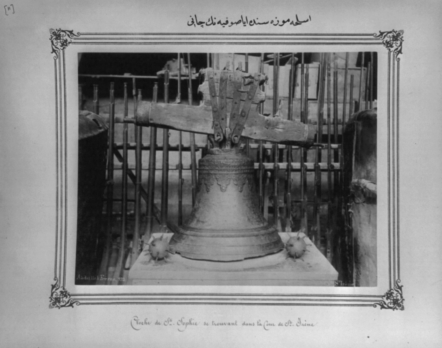 Ayasofya's bell in the Weapons Museum